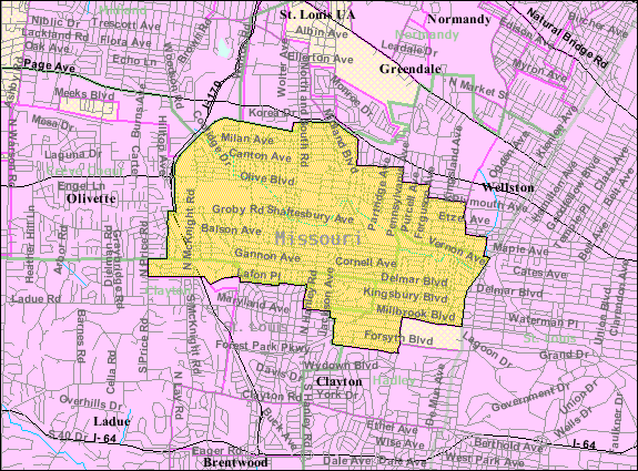 U.S. Census 2000 reference map for University City, Missouri